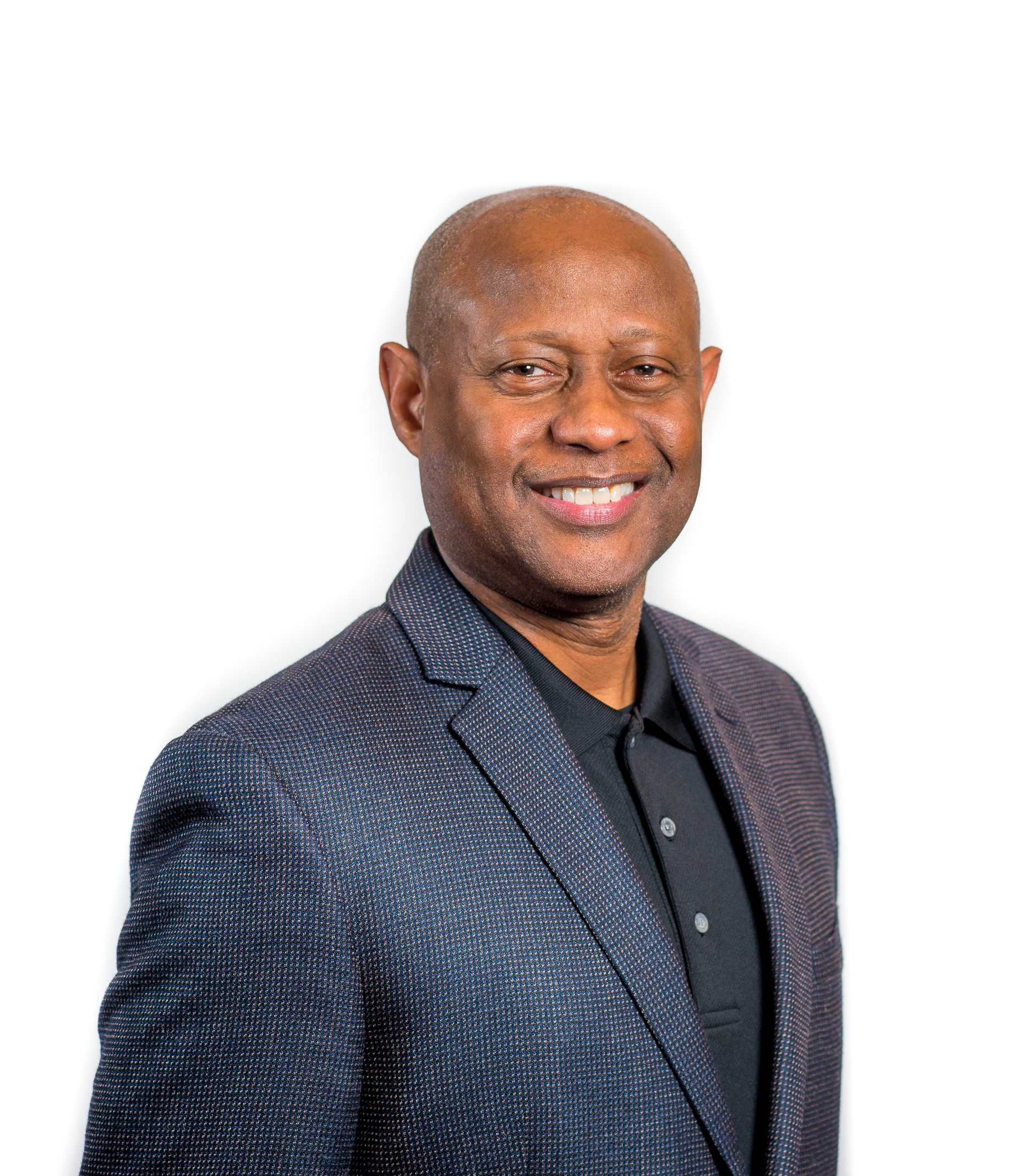 Profile Image of Dr. Noel Woodroffe